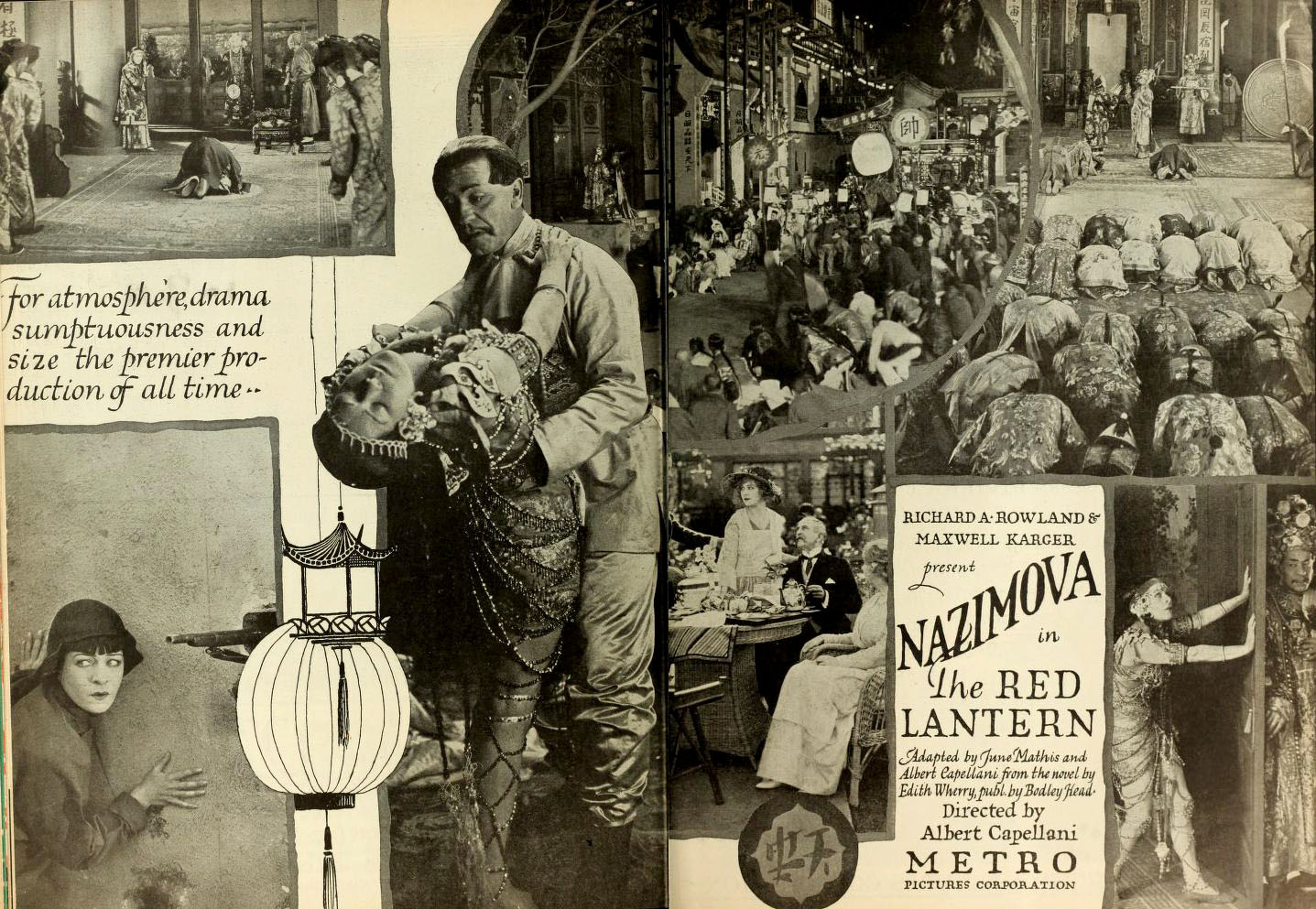 Advertisement in Moving Picture World, May 1919 for The Red Lantern (1919).